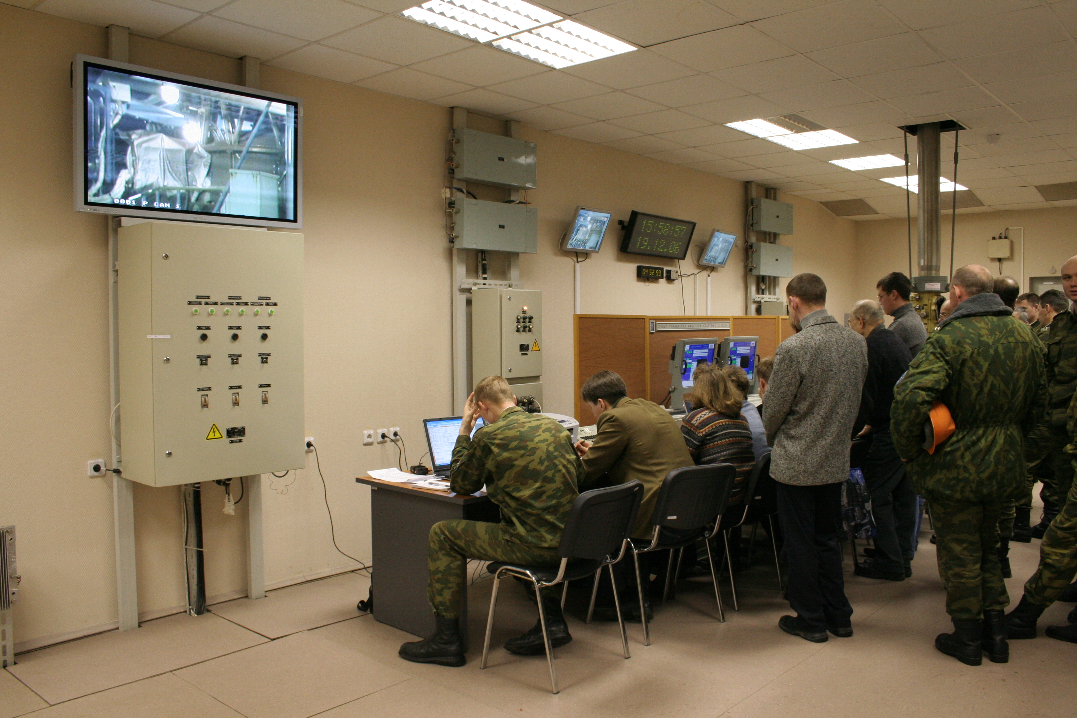 LV Soyuz-2 control system post